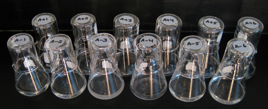 Photograph of Richard Lenski's long-term evolution experiment with E. coli taken on 25 June 2008. Each flask harbors one of the 12 evolving populations. The photo was taken about 24 h after the cultures were serially transferred, hence they are at stationary phase. The populations grow in DM25 medium, which contains a relatively low glucose concentration so that the culture is not very turbid. However, one population, designated Ara-3, evolved to use the citrate that is also present in the medium. It has a much greater density of cells than the others, and it is therefore much more turbid, owing to the high concentration of citrate in the medium supporting greater cell growth.